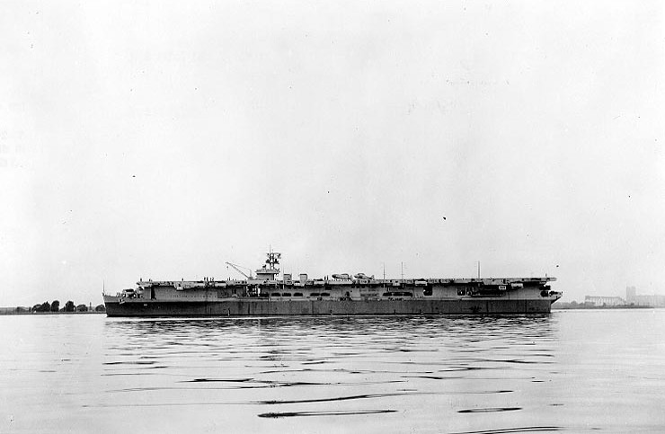 Independence class aircraft carrier#USS Monterey (CVL-26) underway in the Delaware River, circa June 1943, soon after she was commissioned.